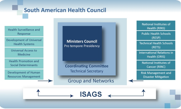 CSS English